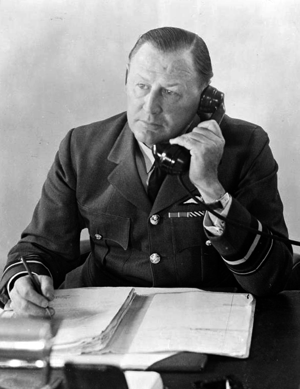 Royal Air Force, the Rhodesian Air Training Group in Southern Rhodesia, 1941-1945. Air Vice Marshal C W Meredith, Air Officer Commanding the Rhodesian Air Training Group, sitting at his desk at the Headquarters of the RATG in Salisbury.